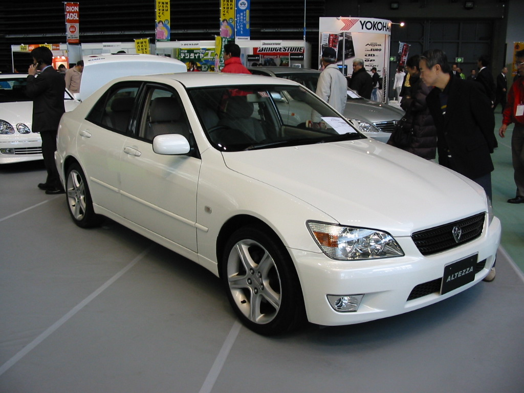 lexus is300 altezza(1st generation) taken in the all toyota Motor Show in Saitama, Japan